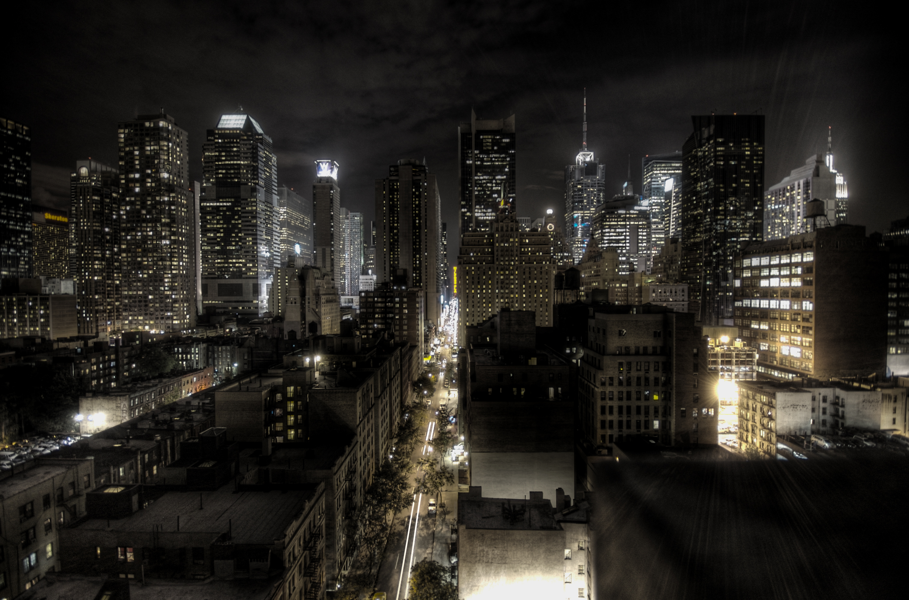 New York City at night, photographed using the HDR technique. Looking east along West 45th St. The yellow sign in the center is Milford Plaza Hotel.